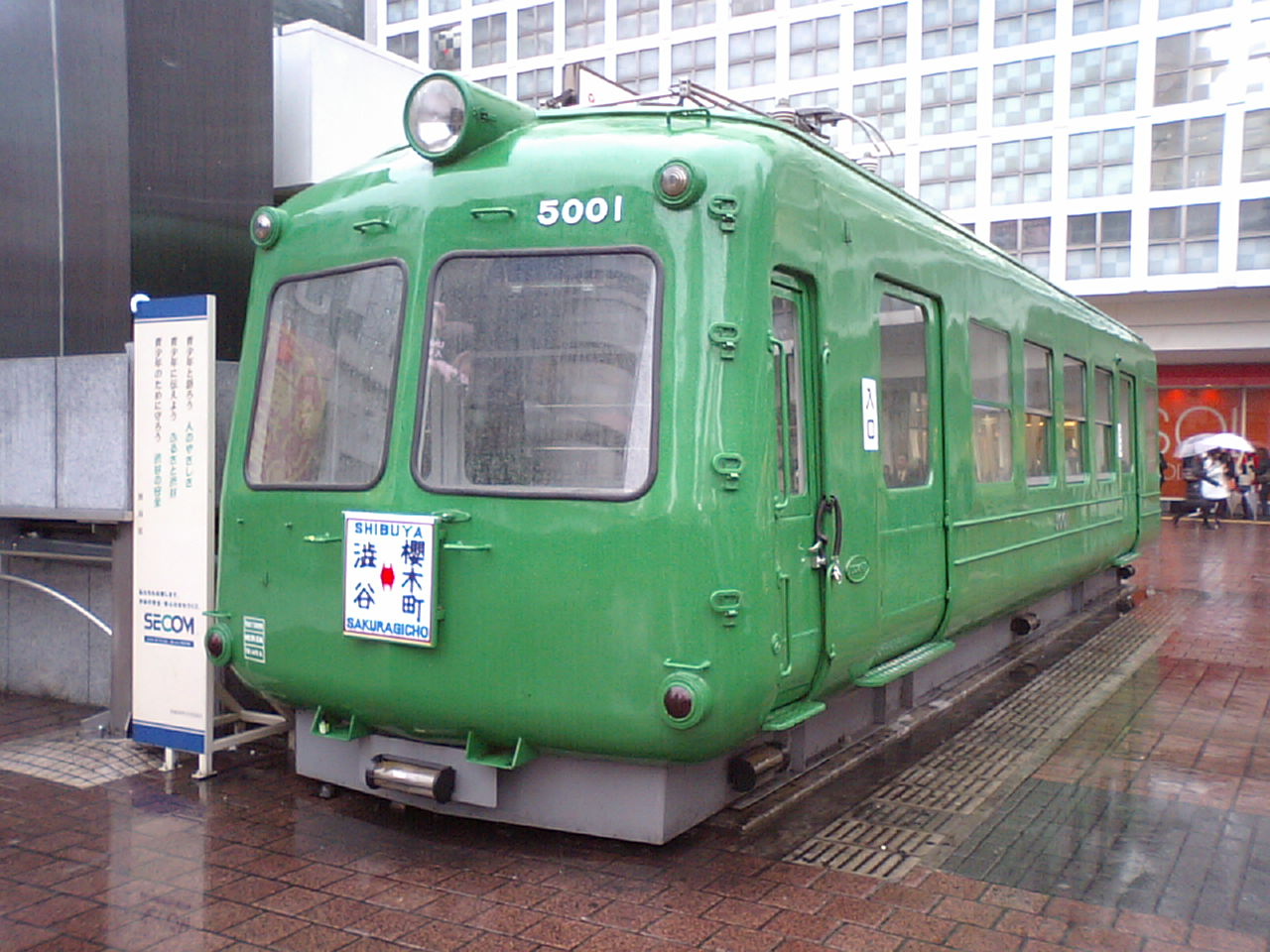 Former Tokyu 5000 series EMU car 5001 on display in front of Shibuya Station in Tokyo